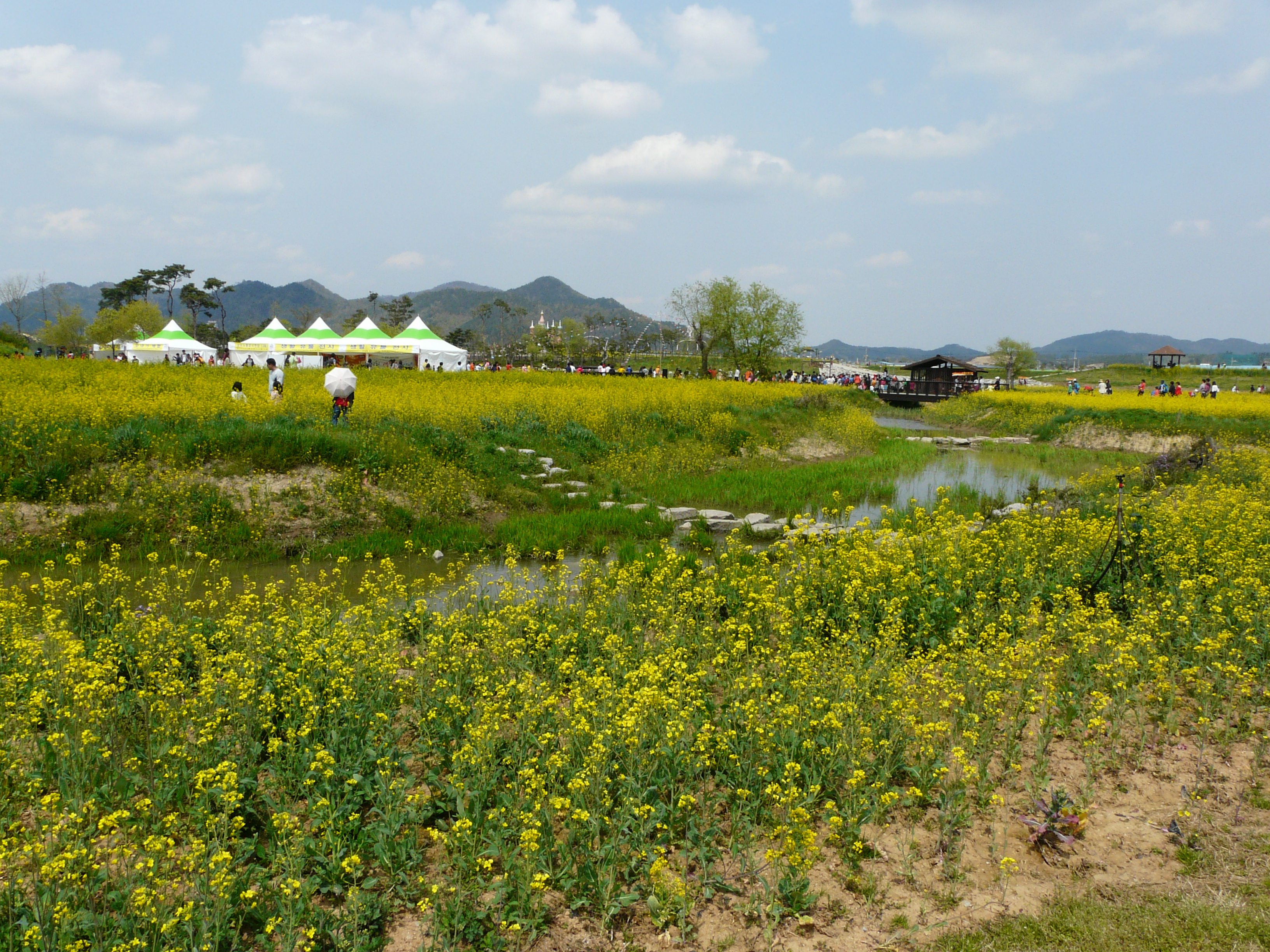 Photos from the Hampyeong Butterfly Festival, Korea.